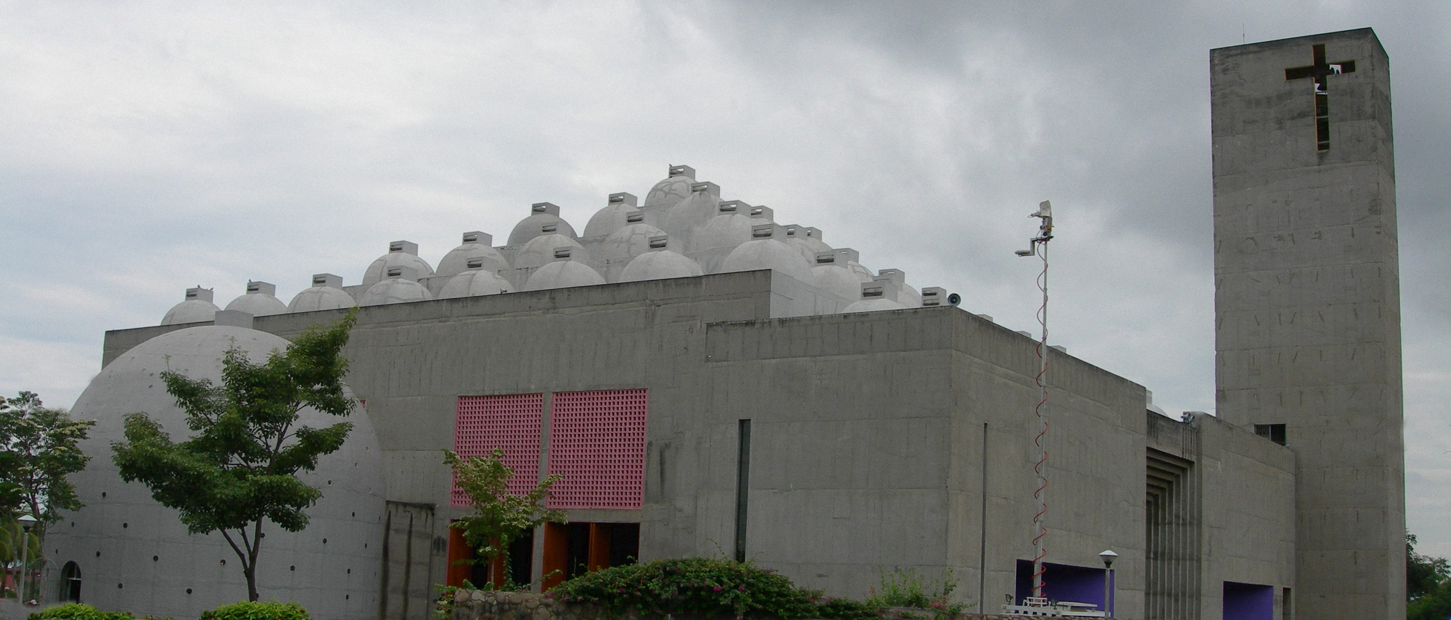 Cathedral in Managua (built in 1993 by Ricardo Legoreta)